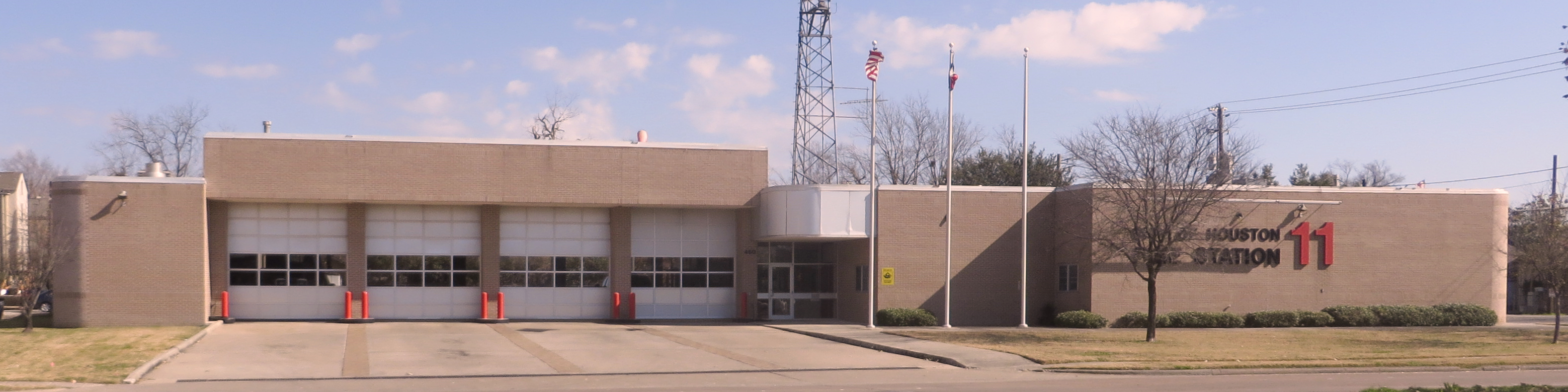 Photo of Houston Fire Department Station 11 at 460 T. C. Jester in Houston, Texas.